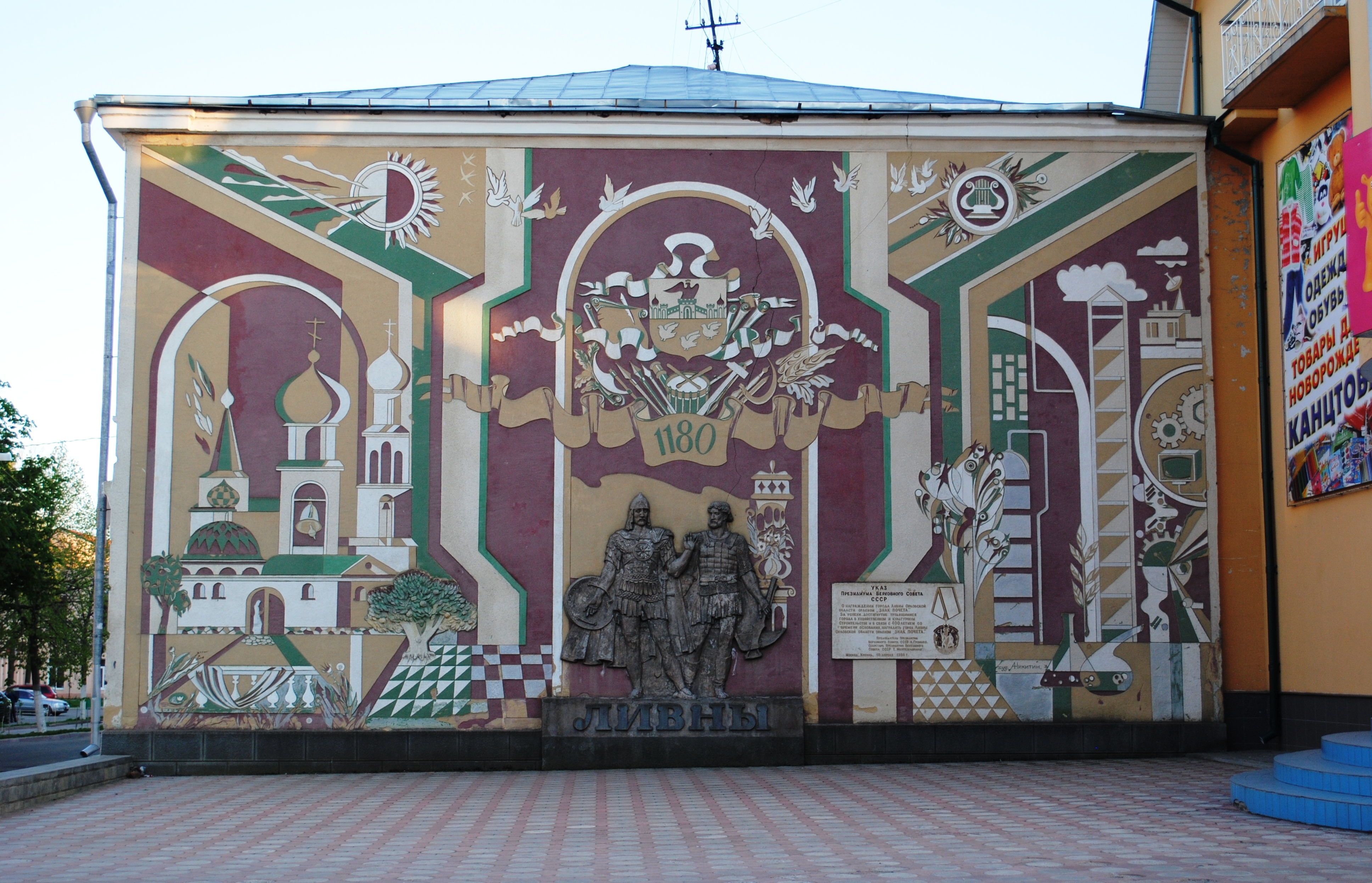 Livny